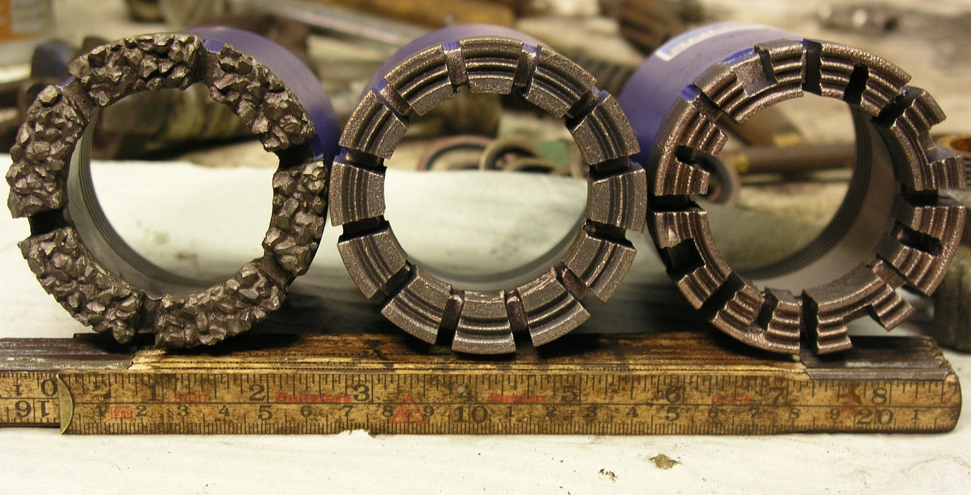 Swedish manufacturer Atlas Copco Craelius. From left: One Tungsten Carbide Bit and two Impregnated Drill Bits. For more information Source by me Mike wai 00:04, 24 January 2007 (UTC)